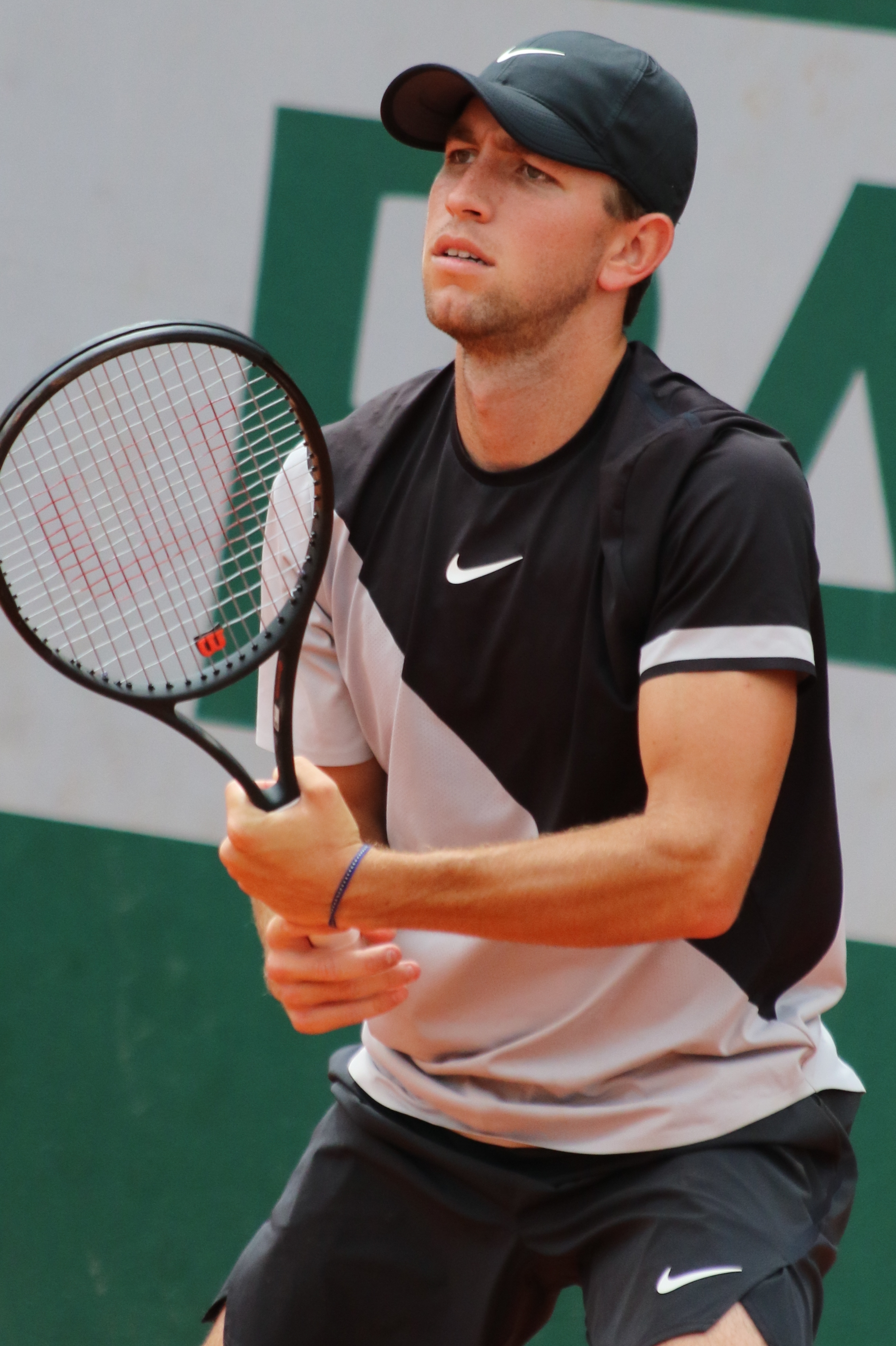 Withrow RG18 (17)